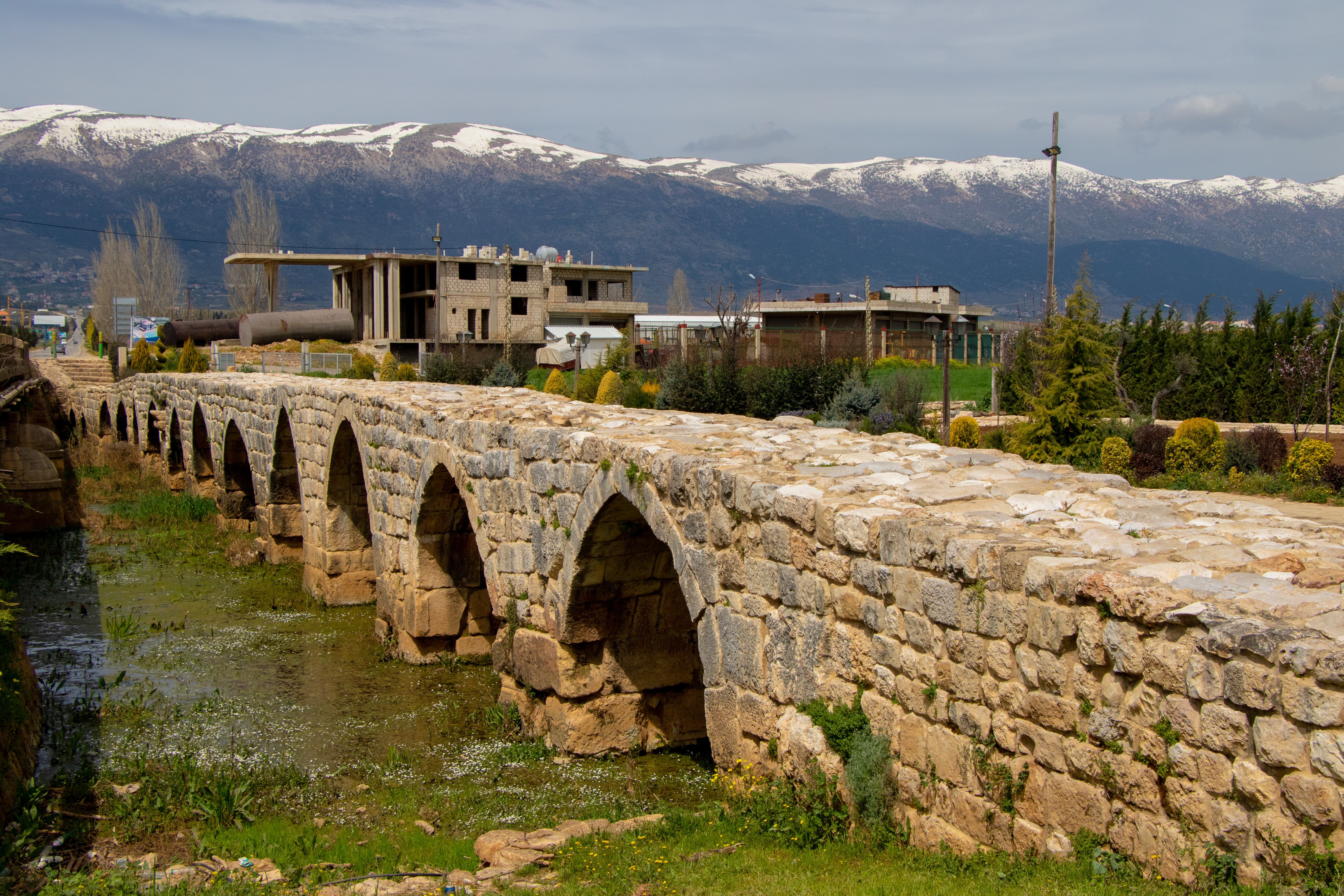 Roman Bridge of Joub Jannine after its re-construction in March 2019.